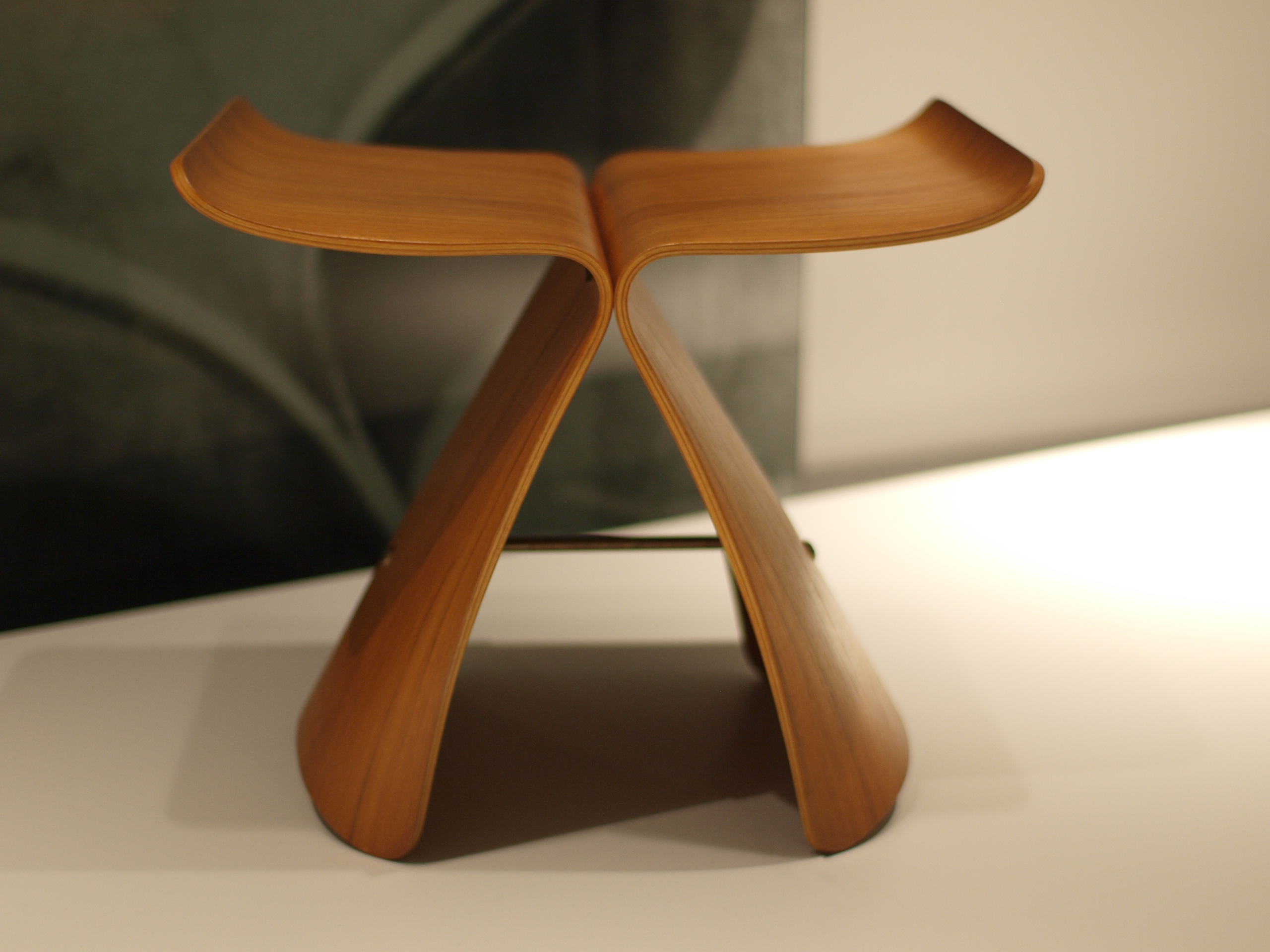 München :: Butterfly Stool by Sori Yanagi